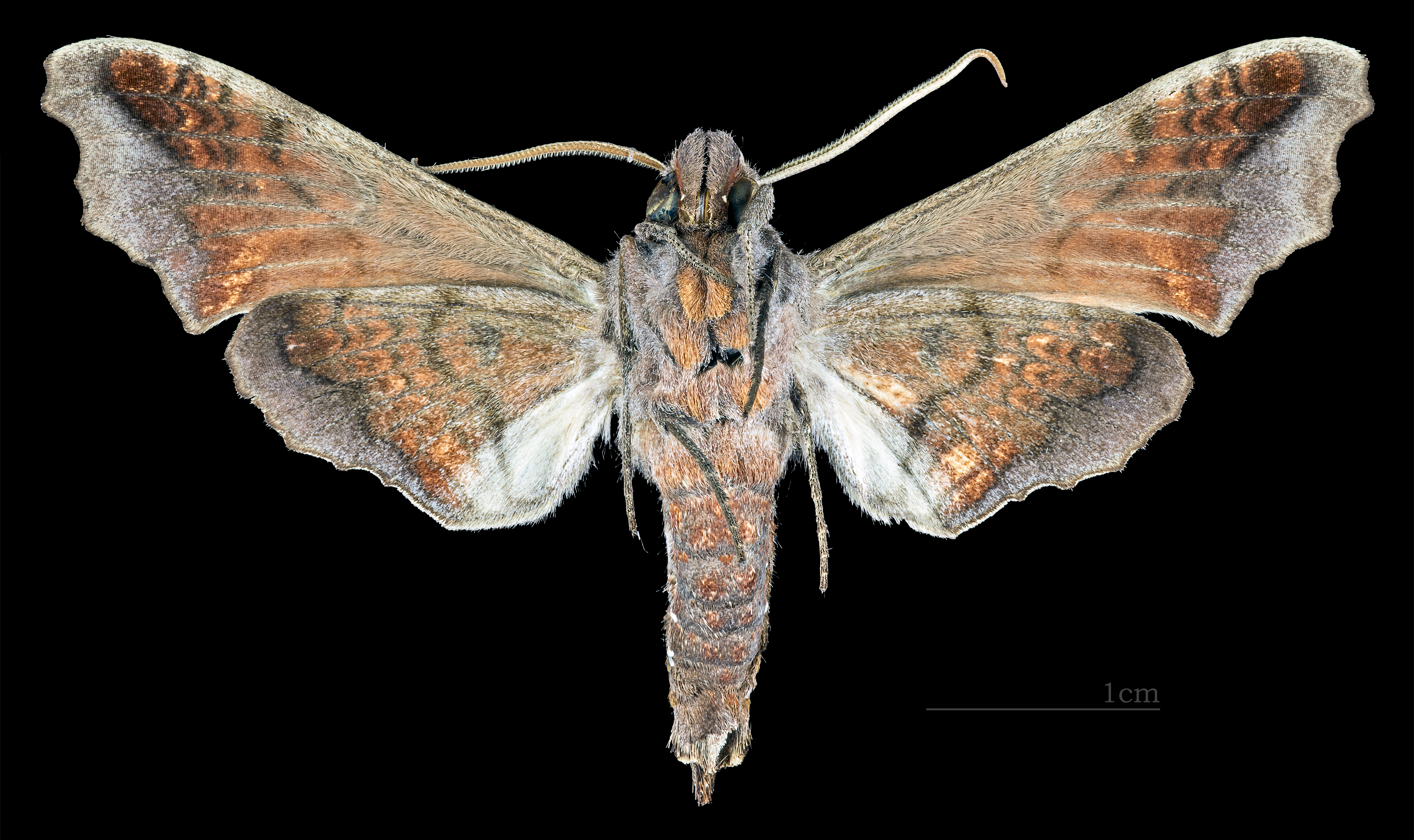 Nyceryx alophus - △ Ventral side Collection of the Mathematician Laurent Schwartz